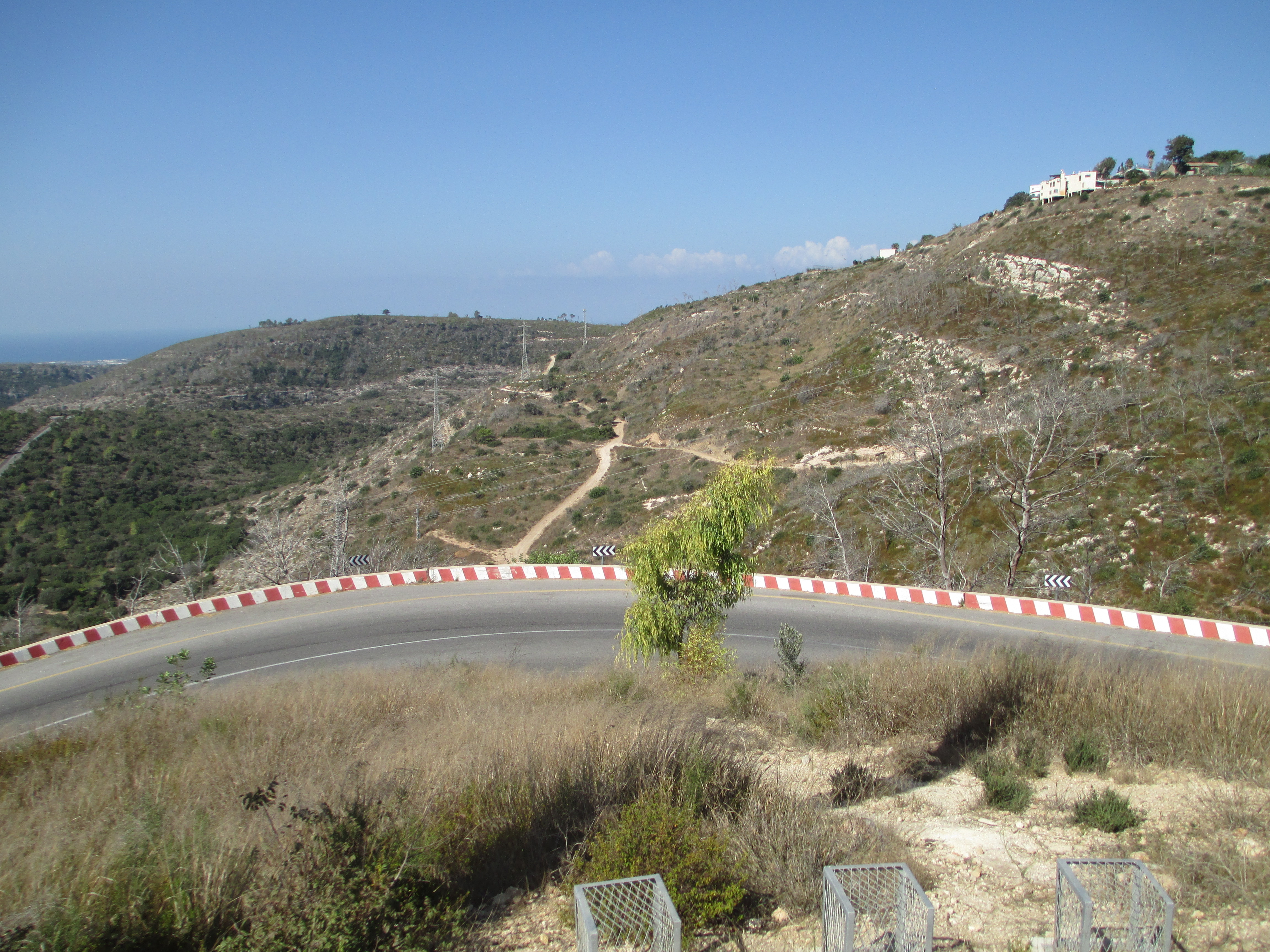 Carmel fire (2010) memorial